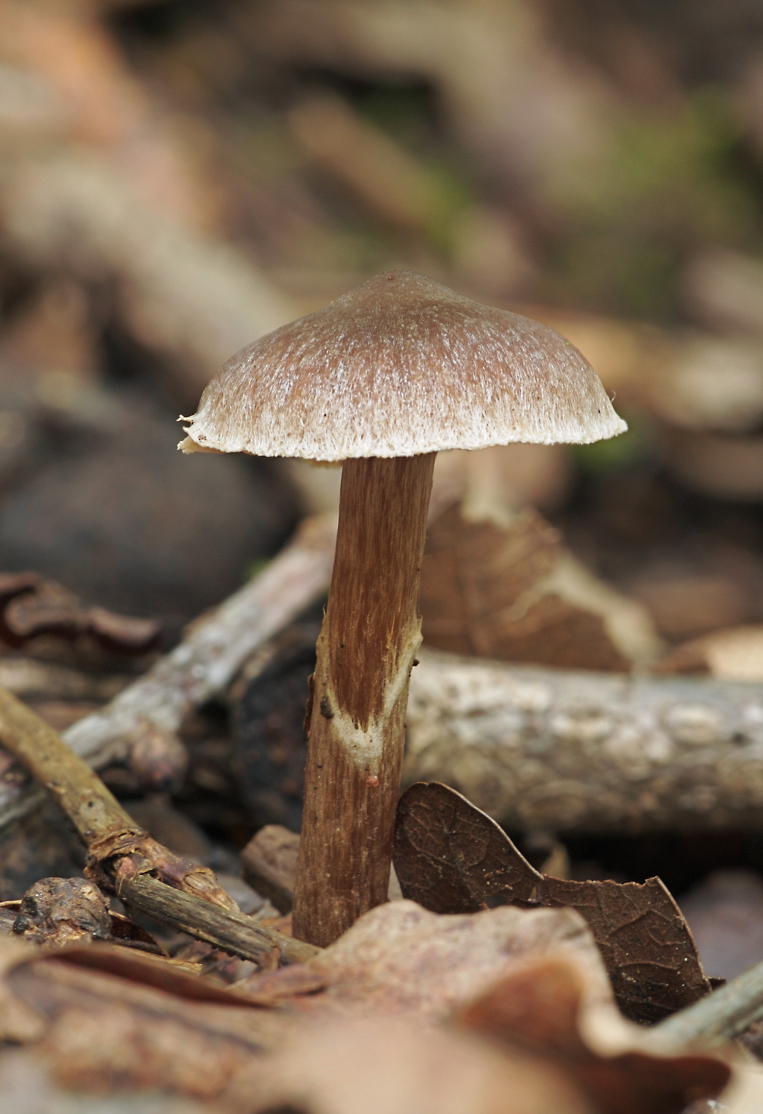 Cortinarius flexipes, Chemnitz, Germany